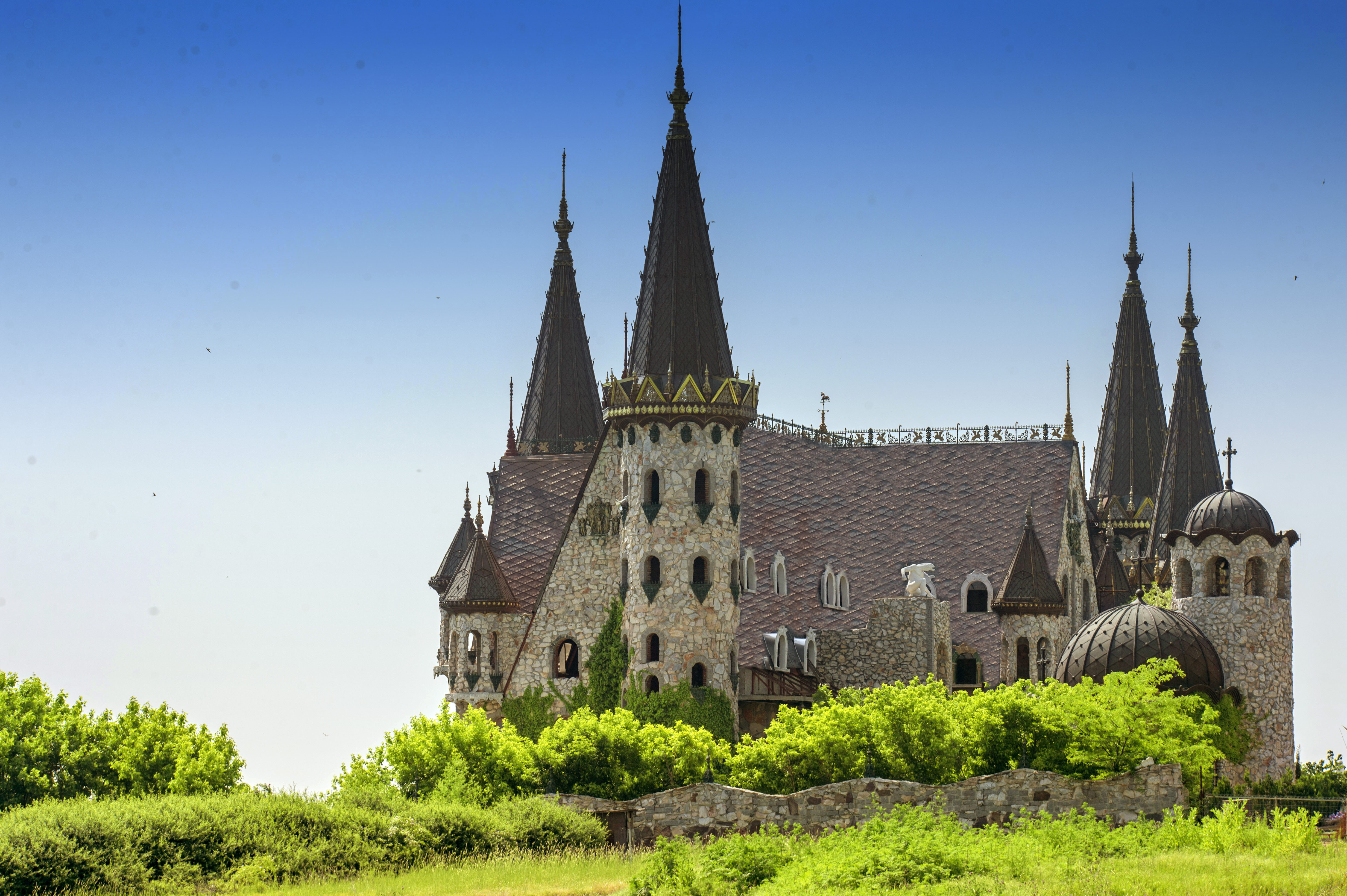 The so called "Ravadinovo Castle" property, Bulgaria